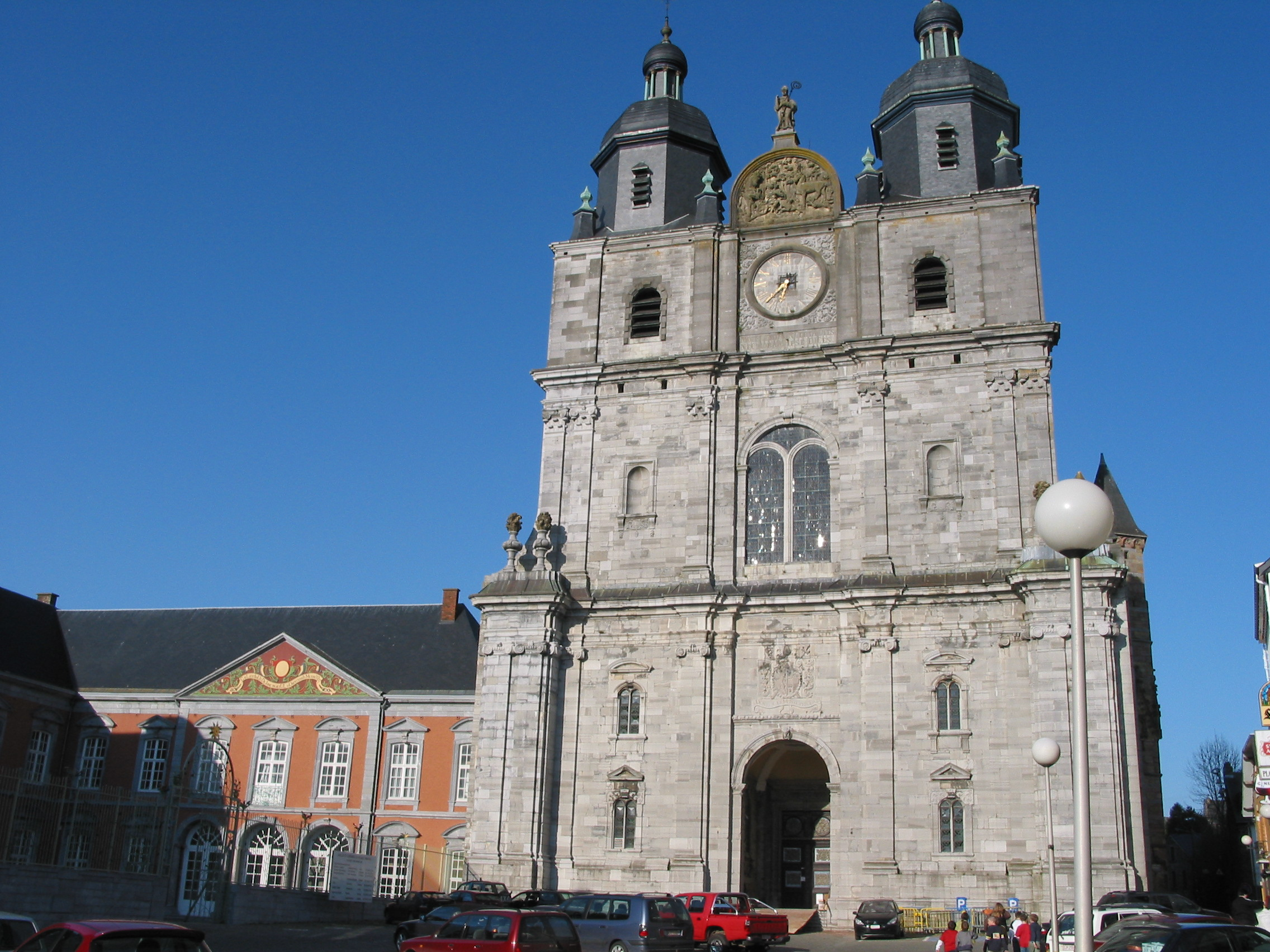 Saint-Hubert, Belgium: the abbey (18th century) and the Saints Peter and Paul abbatial church (18th century).